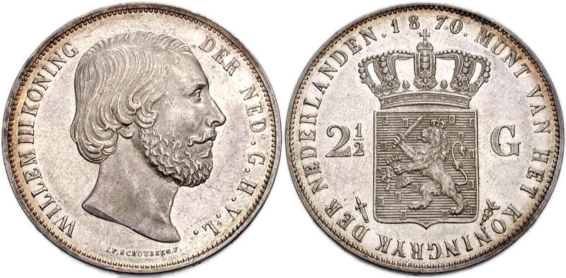 NETHERLANDS. William III. 1849-1890. AR 2 1/2 Gulden (38mm, 24.93 g). Utrecht mint. Dated 1870. Head right Coat-of-arms. KM 82. Good VF, brush marks in fields.